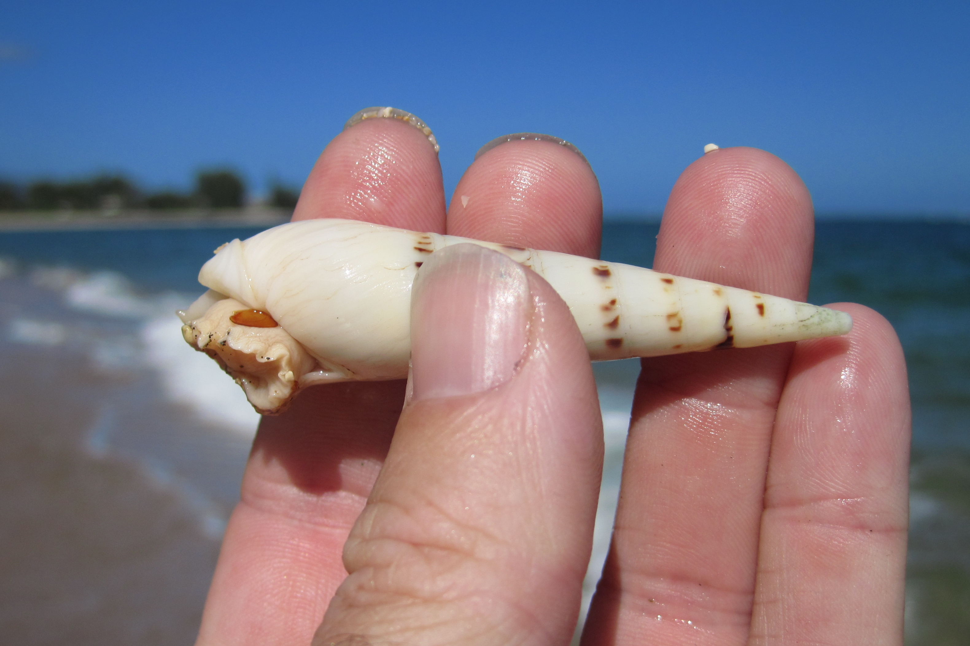 live Oxymeris maculata (synonyms : Terebra maculata, Acus maculatus) Supposedly common, in my ten years in Hawaii this is the first live auger shell I have seen. I caught a glimpse of it, barely exposed above the sand, in the receding shore break. After snapping the photo, I carefully replaced this little gastropod in the sand at the water's edge. I think it is a Terebra maculata, based on photos I could find online. Waialua, Oahu, Hawaii 13 March 2010